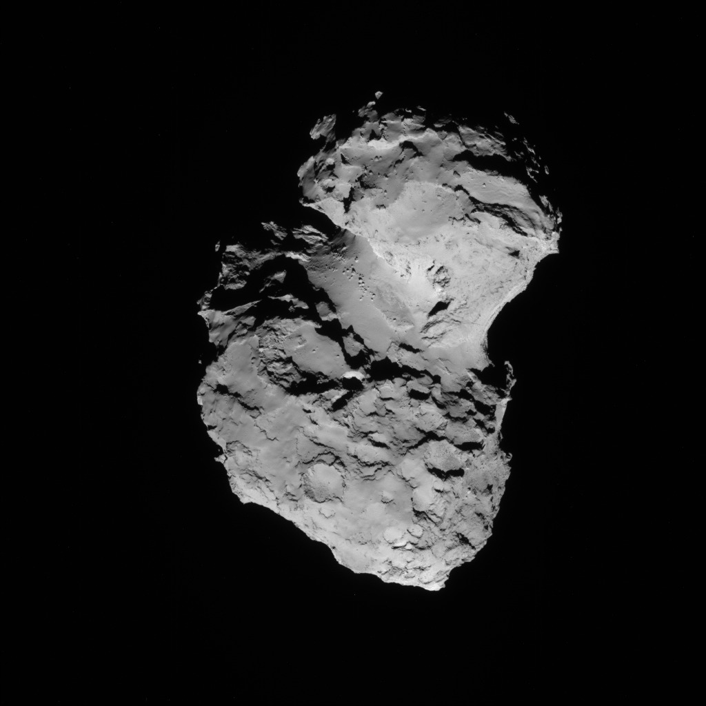 Full-frame NAVCAM image taken on 8 August 2014 from a distance of about 81 km from comet 67P/Churyumov-Gerasimenko.